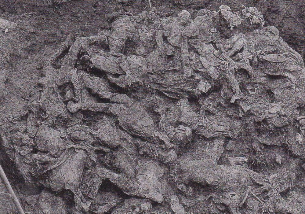 Photo Exhibit used in ICTY Srebrenica Cases: 1996 Branjevo Military Farm grave exhumation